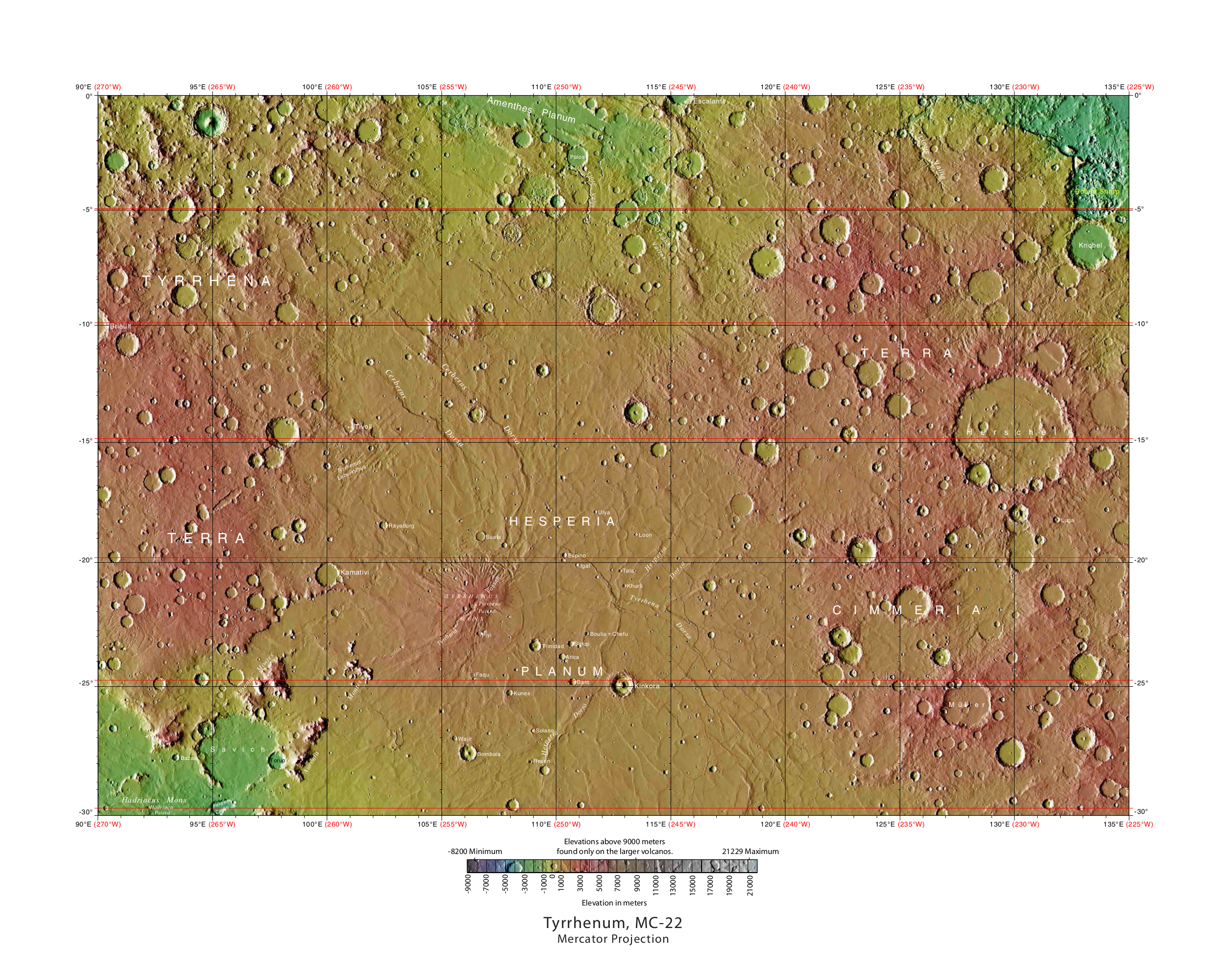 MOLA Topographic Map of Mare Tyrrhenum Quadrangle (MC-22) on the planet Mars. NOTE: Converted the original PDF file to a PNG File (via GIMP v2.8.4 program) - and uploaded to Wikimedia Commons.